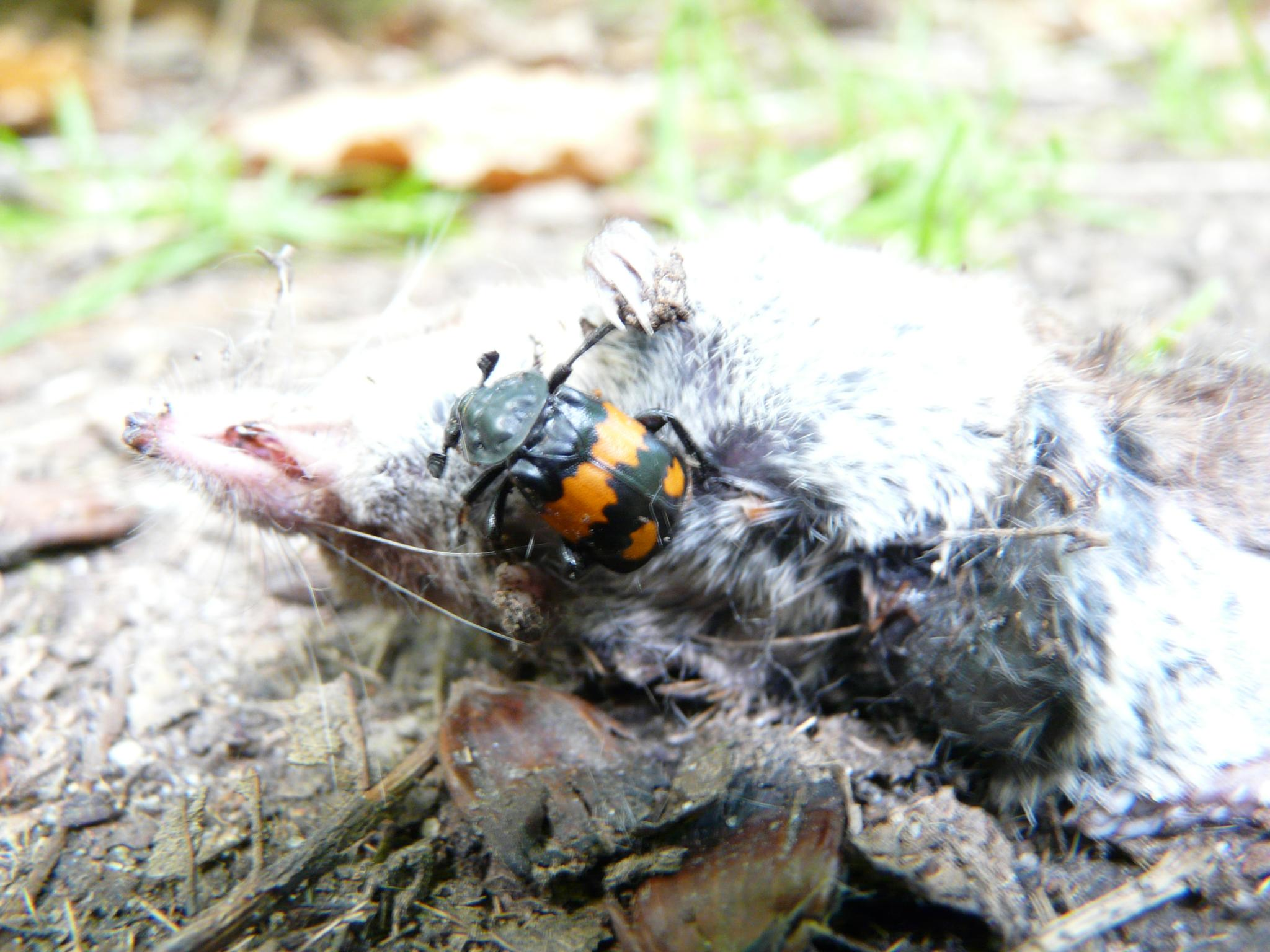 Nicrophorus vespilloides Sorry for the rubbish exposure but it was bad light and she just would not sit still. We noticed this dead shrew earlier and a few hours later passed it again except this time it was twitching! Then this amazing beetle emerged from underneath.